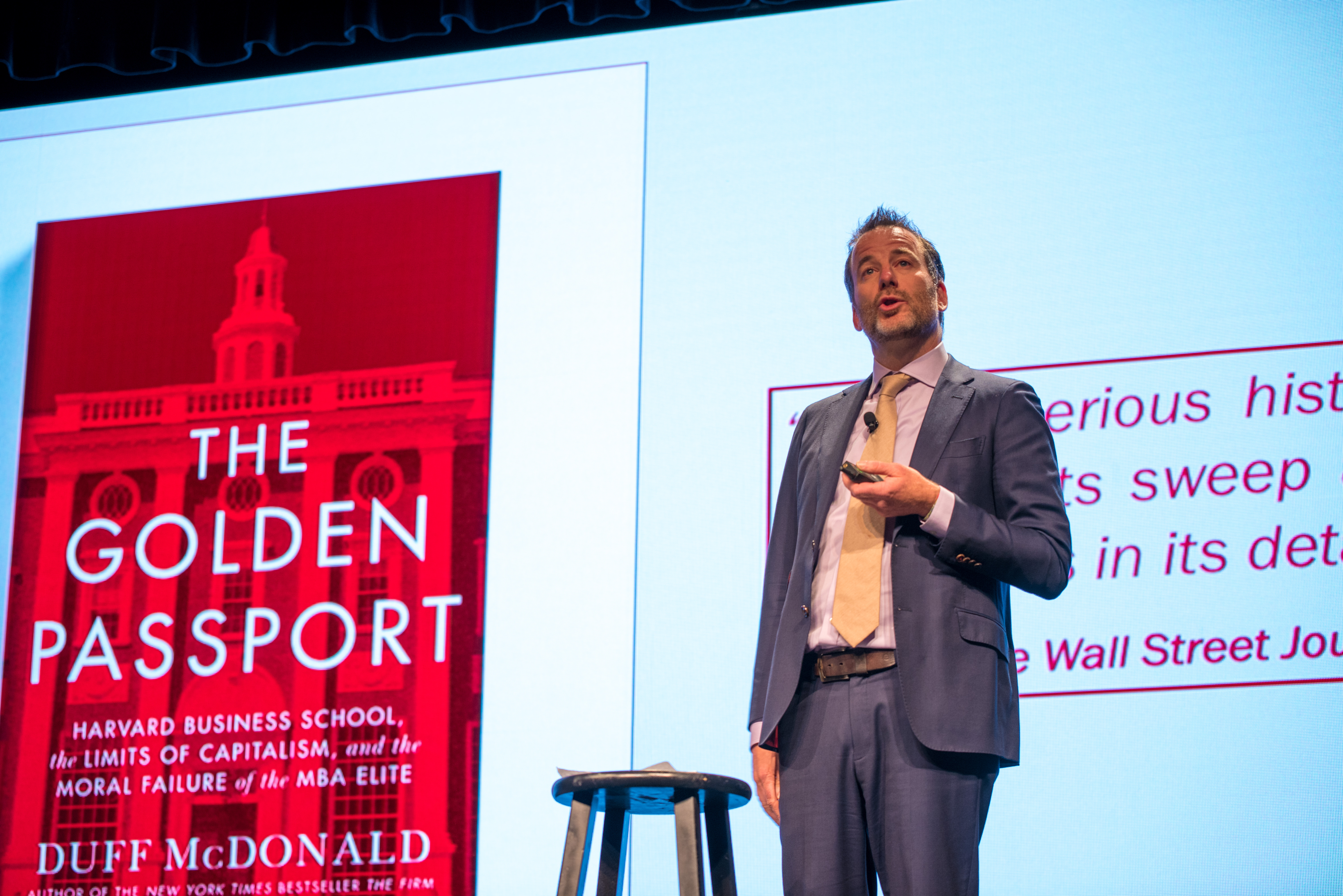 McDonald at Poptech